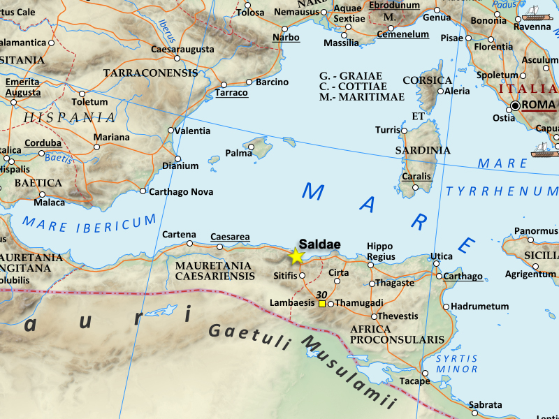 This is a map of the Western Roman empire around the Mediterranean, around the time of Hadrian in the 2nd century AD. It specifically shows Saldae, at this time an important port city, and later the capital of the Vandal Kingdom.